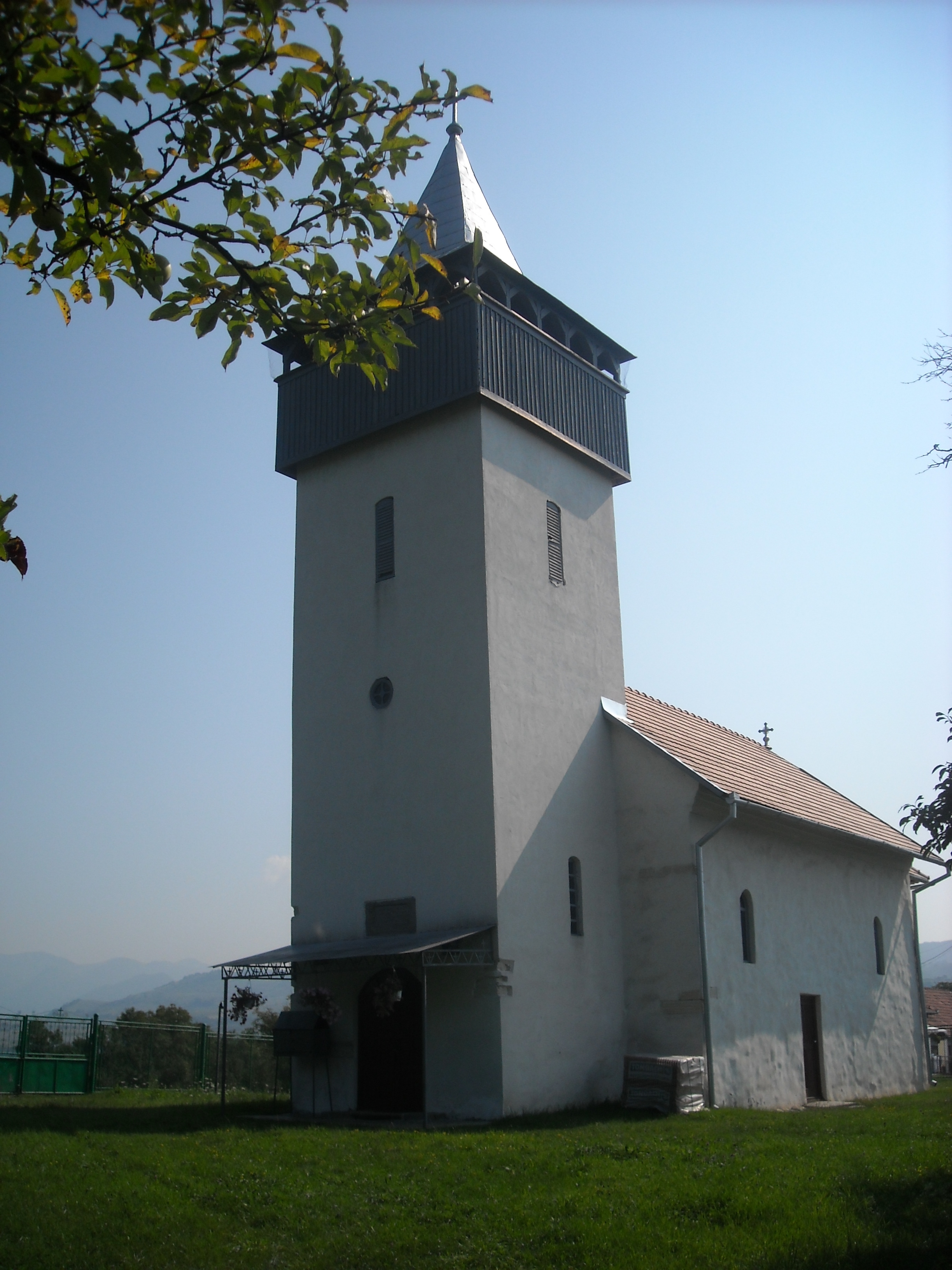 Orthodox church in Bârsău, Hunedoara County, Romania